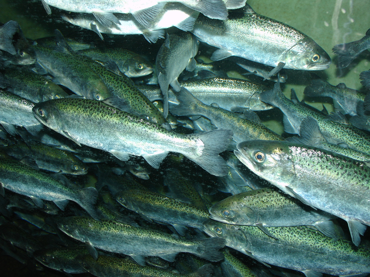 Chinook salmon, Oncorhynchus tshawytscha